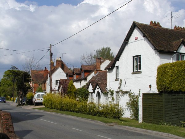 The Street, Eversley. Looking north from the junction with Warbrook Lane